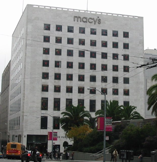 Photograph of the San Francisco building at Stockton and Geary which was refaced in 1946 by Timothy L. Pflueger for the department store I. Magnin; their flagship location on Union Square. The building is now part of Macy's.